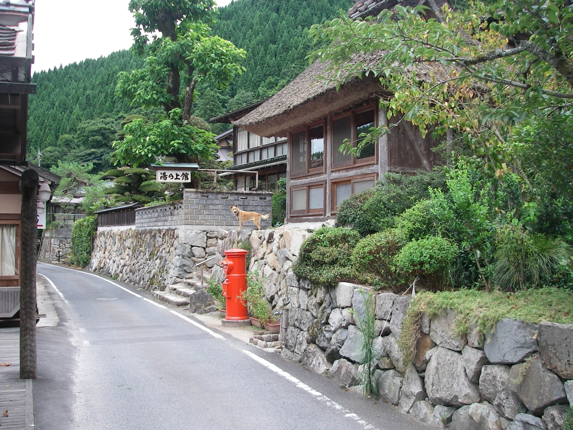 Izumoyumura onsen